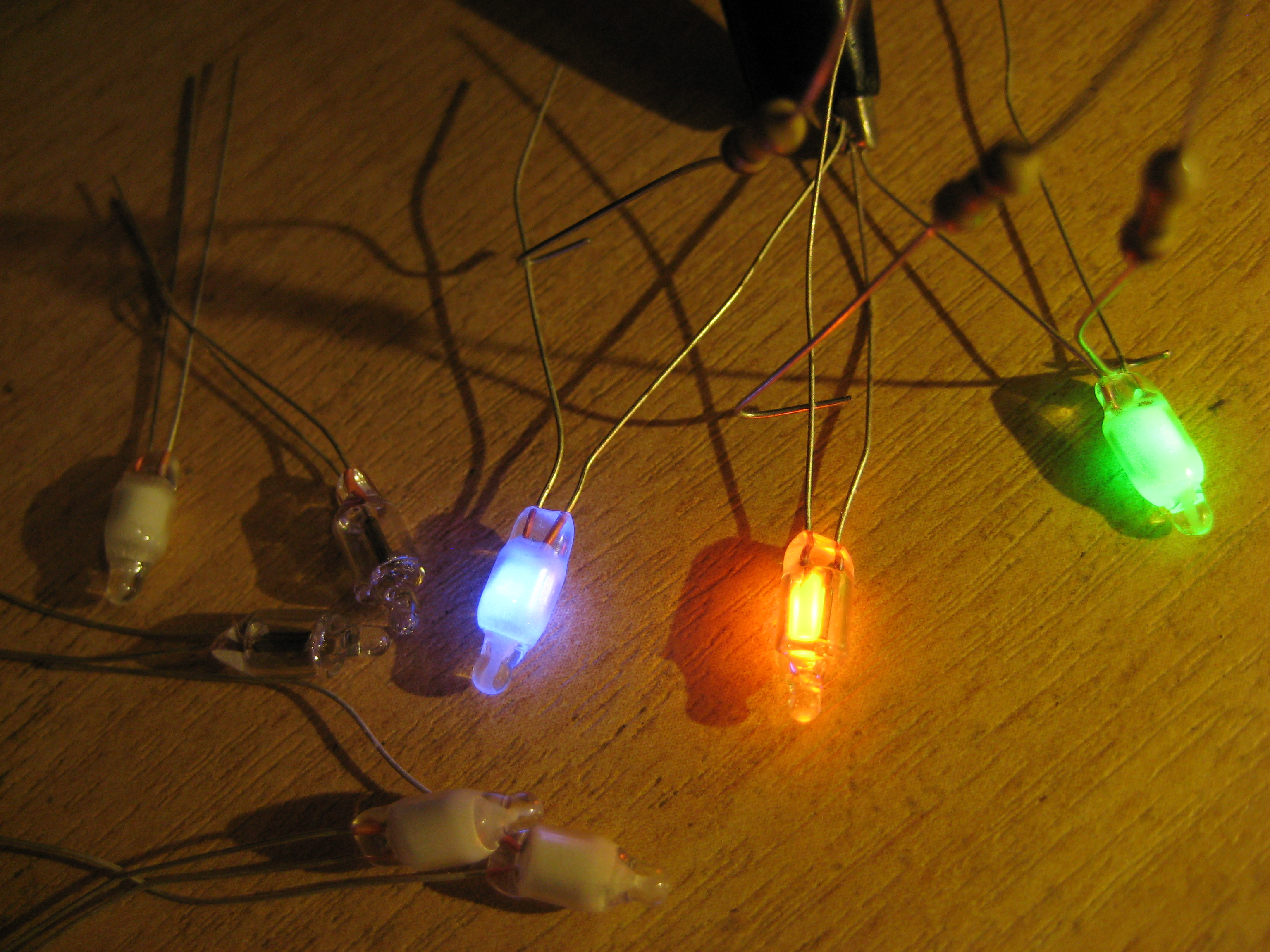 NE-2 neon lamps of different colors (left to right: NE-2B, NE-2, NE-2G)